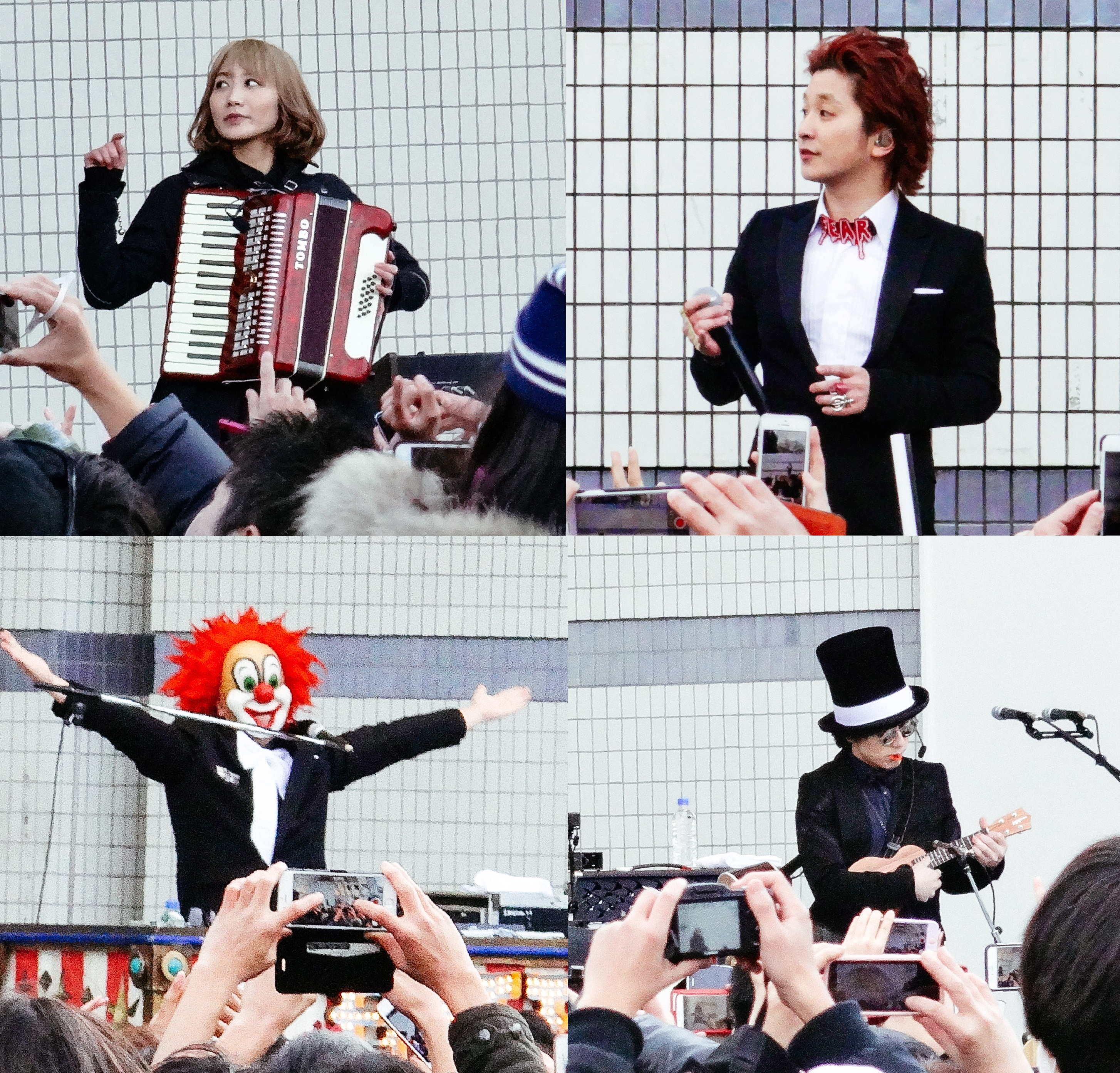 Sekai no Owari performing at a free live concert in Tokyo (2015)